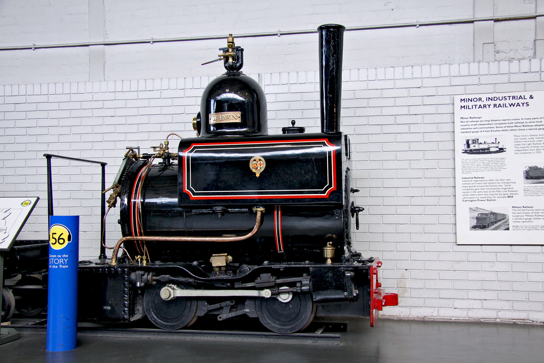 Lancashire and Yorkshire Railway 0-4-0ST locomotive WREN on display in the great hall at the National Railway Museum, York. Monday 1st June 2009